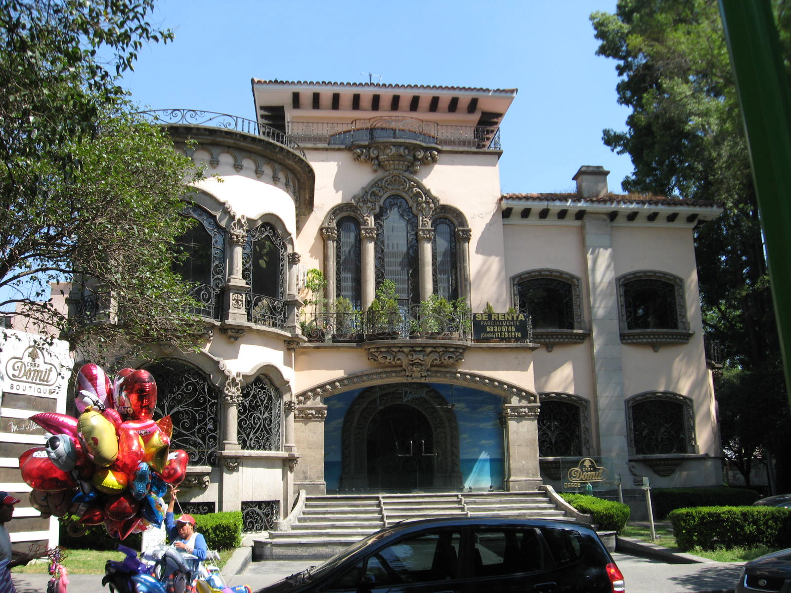 The house of Don Antonio Domit Dib on Castelar Street in the Polanco neighborhood of Mexico City